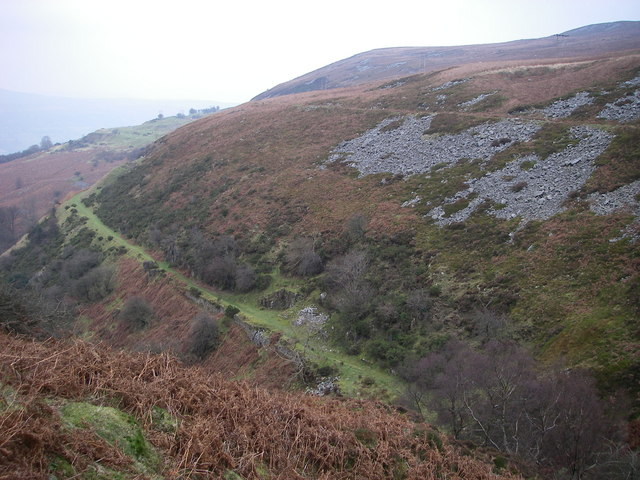 Hill's Tramroad in Cwm Ifor This wintertime shot clearly shows (below) the bench of Hill's Tramroad between Pwll-du and Garnddyrys and (above) the leat which formerly took water from the balancing pond east of Pwll-du to the forge site at Garnddyrys.